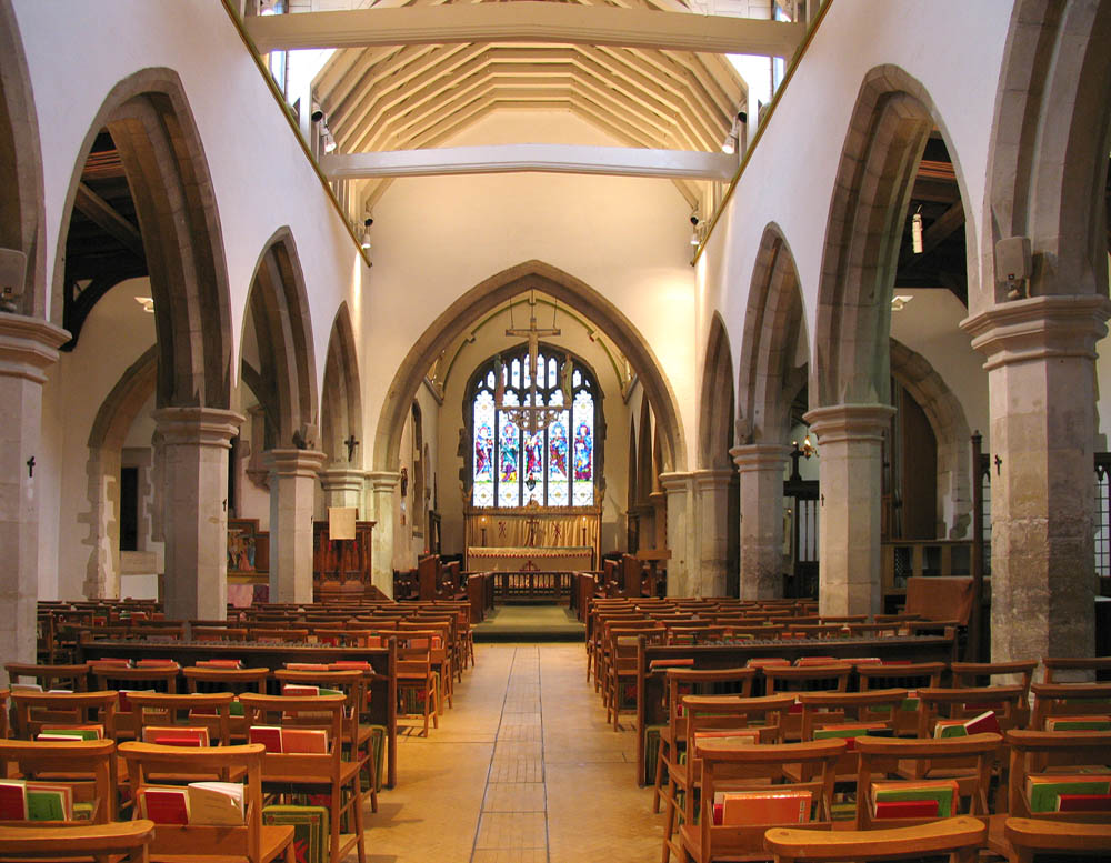 St John the Baptist, Church Lane, Pinner - East end